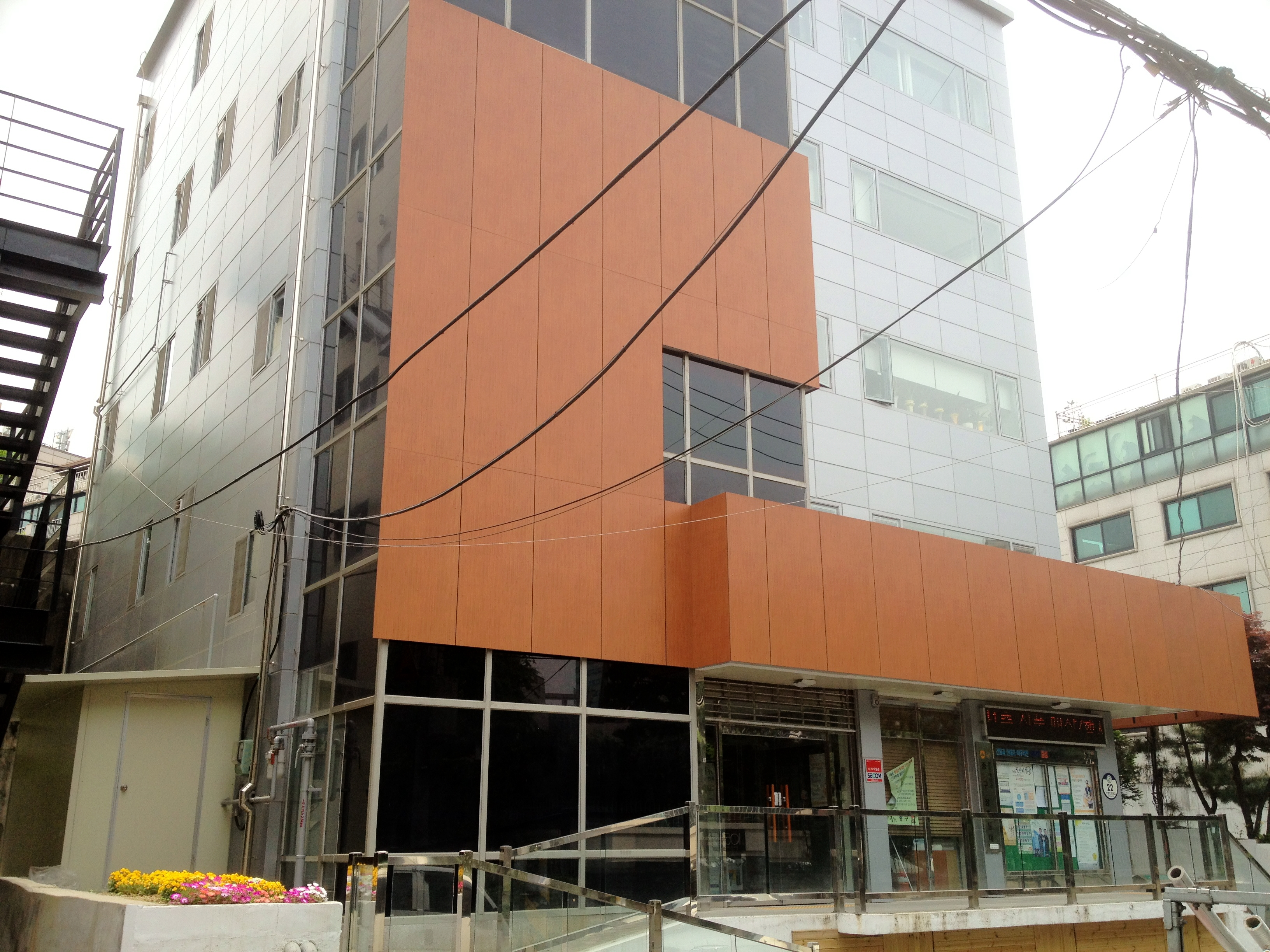 Jangchung-dong Comunity Service Center(Jung-gu)